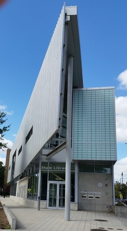 Picture of the Watha T. Daniel/Shaw Neighborhood Library